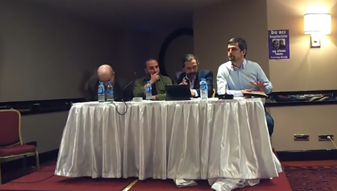 Garo Paylan (Armenian: Կարօ Փայլան, born 1972) is a Turkish politician of Armenian descent. He is a Member of the Grand National Assembly of Turkey for the Peoples' Democratic Party (HDP) representing Istanbul. He became one of the first Armenian members of Turkey’s parliament in decades.